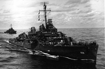 The U.S. Navy destroyer USS Dashiell (DD-659) and another Fletcher-class destroyer underway in the Pacific Ocean, in November 1943.